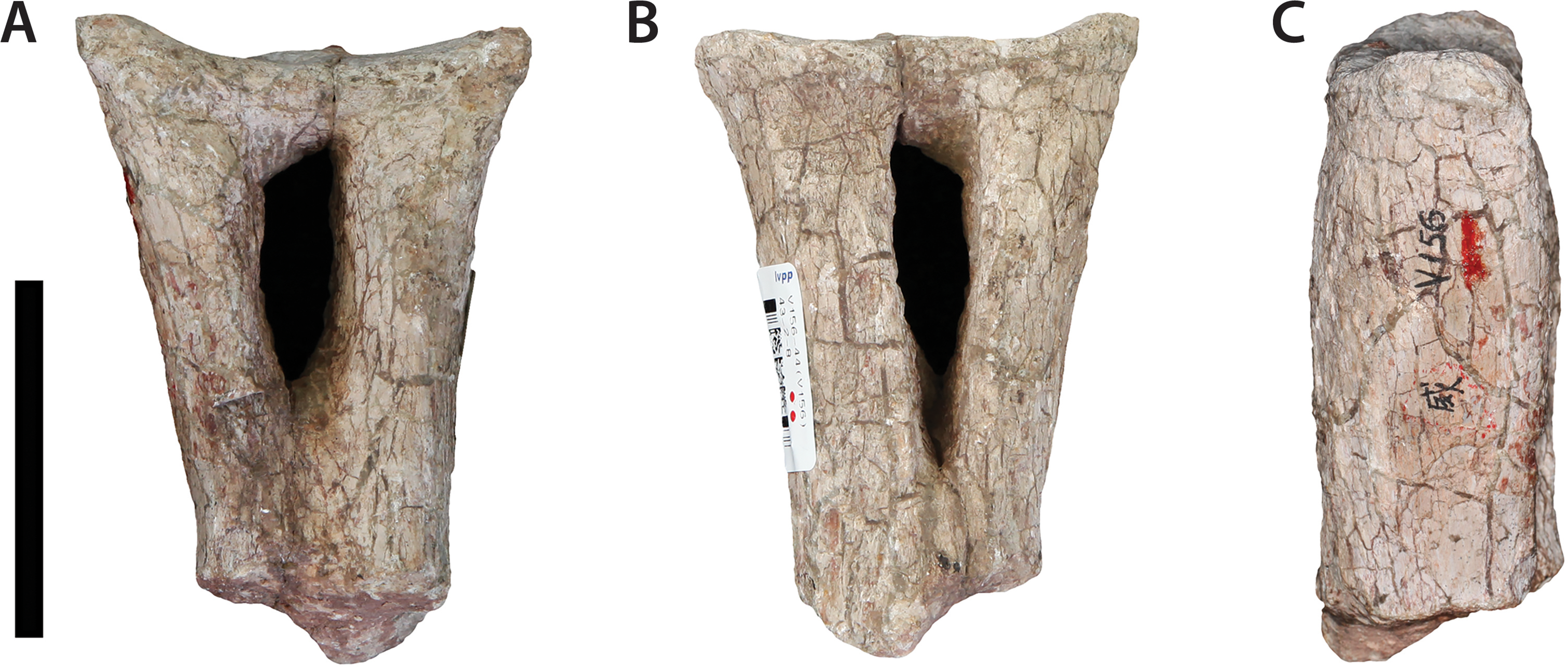 Chevron (IVPP V156B) of Sanpasaurus. (A) Anterior view; (B) posterior view; (C) lateral view. Scale bar equals 5 cm. Photographs by B.W.M.